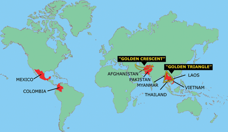 Basic map of the world's primary opium/heroin producers. Also shows the "golden crescent" and "golden triangle" regions.